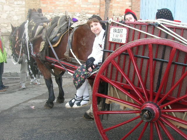 Typical image of the Encamisada in Falset